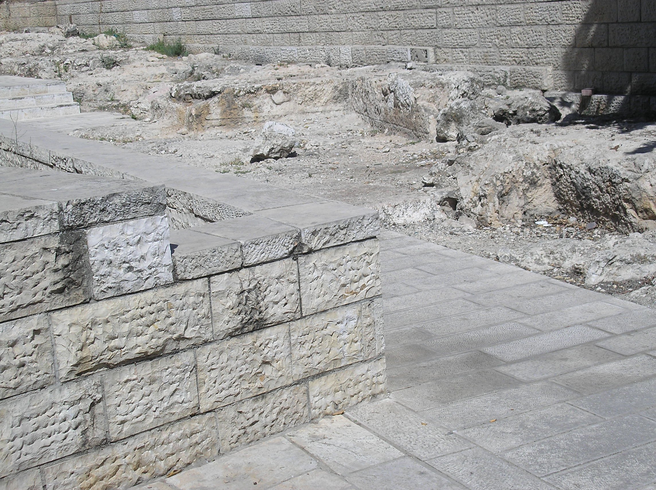 Remains of the Third Wall of Jerusalem